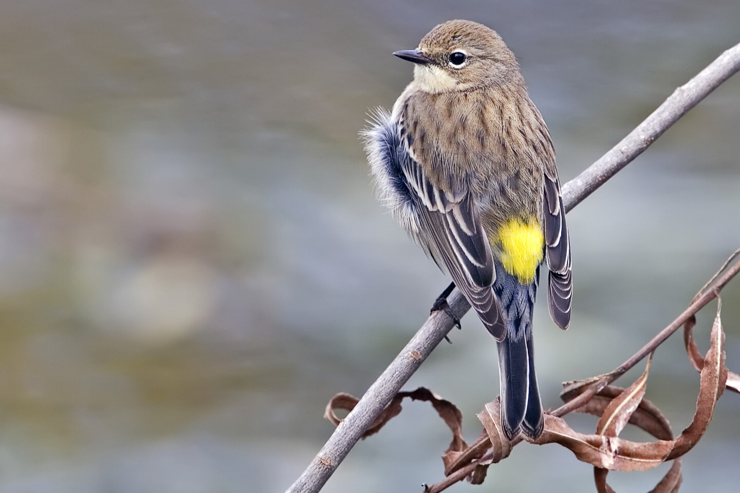 Myrtle Warbler at Paradise Pond, Port Aransas, Texas